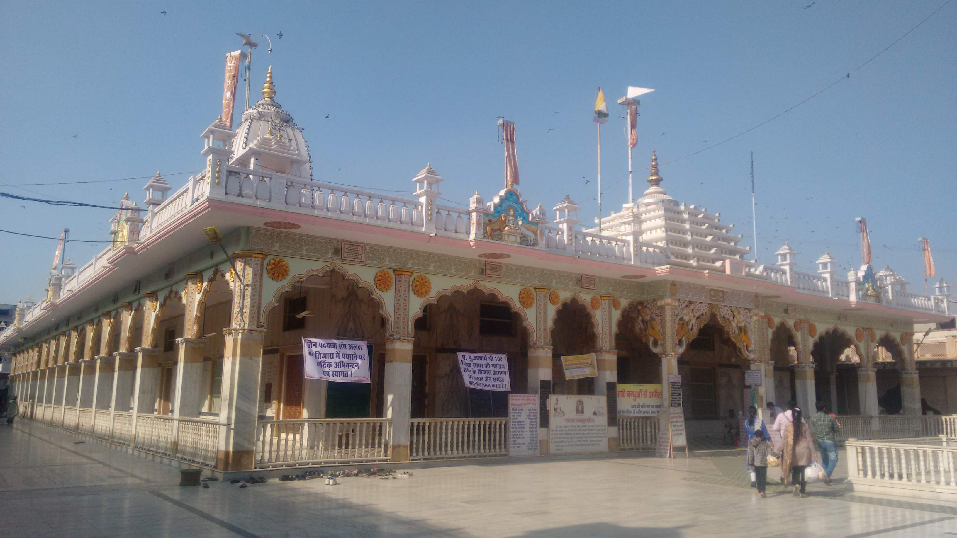 Main Jain temple in Tijara, dedicated to chandraprabha